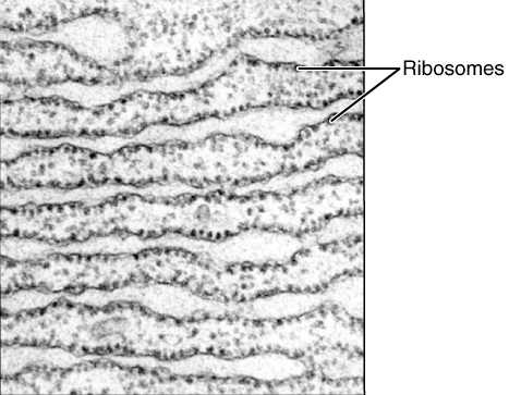 Caption: (a) The ER is a winding network of thin membranous sacs found in close association with the cell nucleus. The smooth and rough endoplasmic reticula are very different in appearance and function (source: mouse tissue). (b) Rough ER is studded with numerous ribosomes, which are sites of protein synthesis (source: mouse tissue). EM × 110,000. (c) Smooth ER synthesizes phospholipids, steroid hormones, regulates the concentration of cellular Ca++, metabolizes some carbohydrates, and breaks down certain toxins (source: mouse tissue). EM × 110,510. (Micrographs provided by the Regents of University of Michigan Medical School © 2012) URL: Version 8.25 from the Textbook OpenStax Anatomy and Physiology Published May 18, 2016